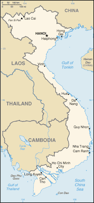 Map of Vietnam, showing major cities.